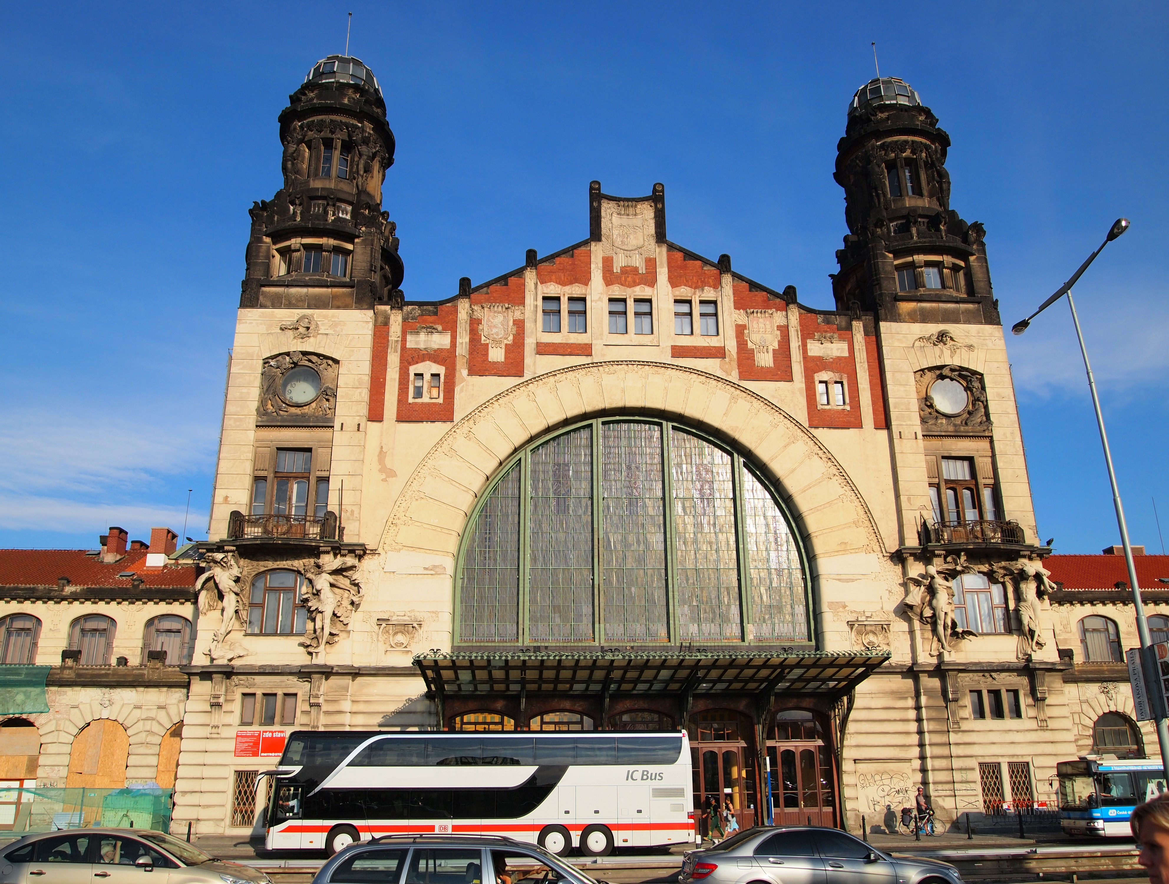 Main train station in Prague. This photograph was taken with an Olympus E-PL1